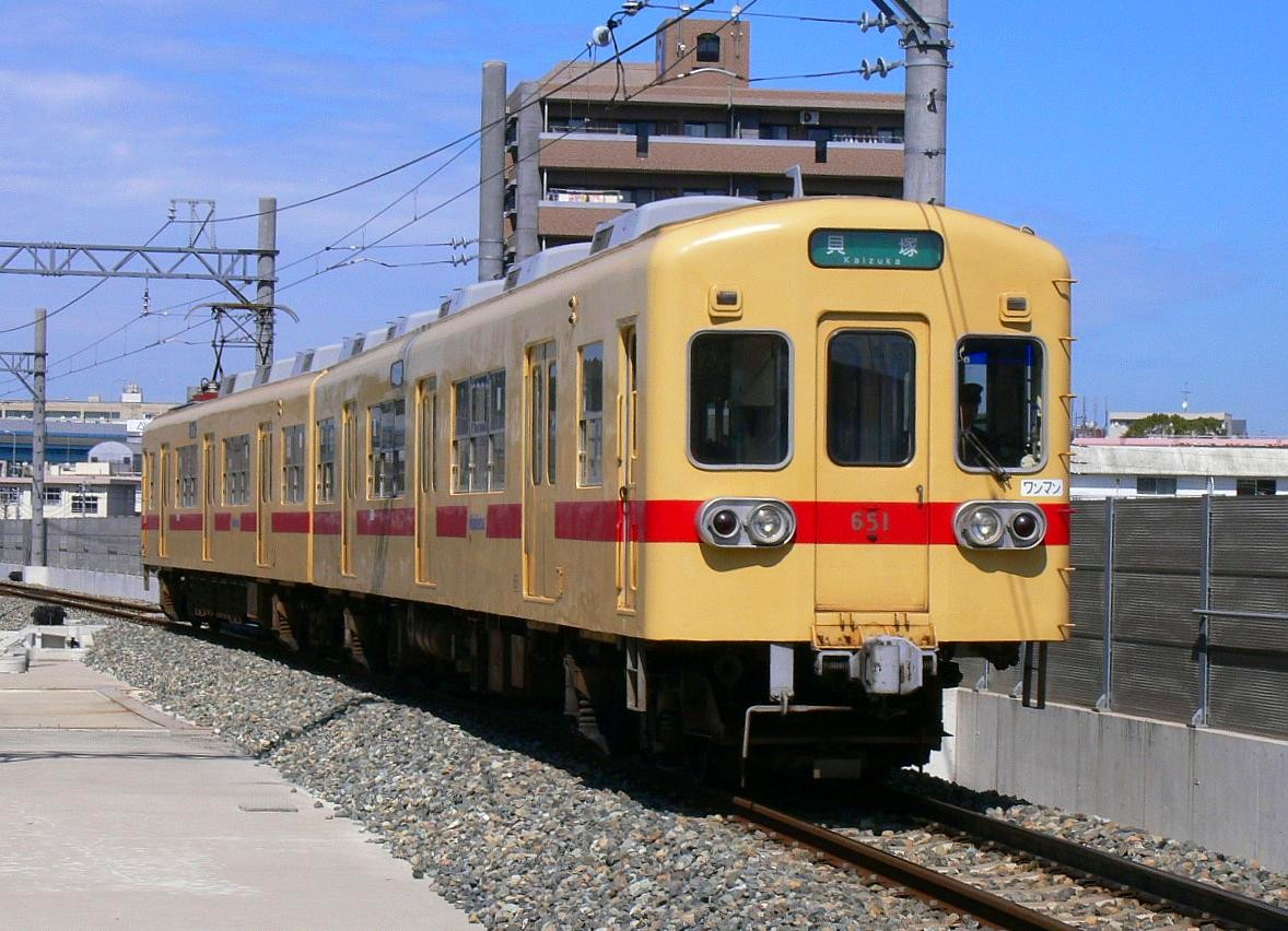 Nishi-Nippon-Railroad Type 600 Train (Japan).It takes a picture from the platform with Nishitetu Cashii Station in the Nishitetu-Kaiduka line.